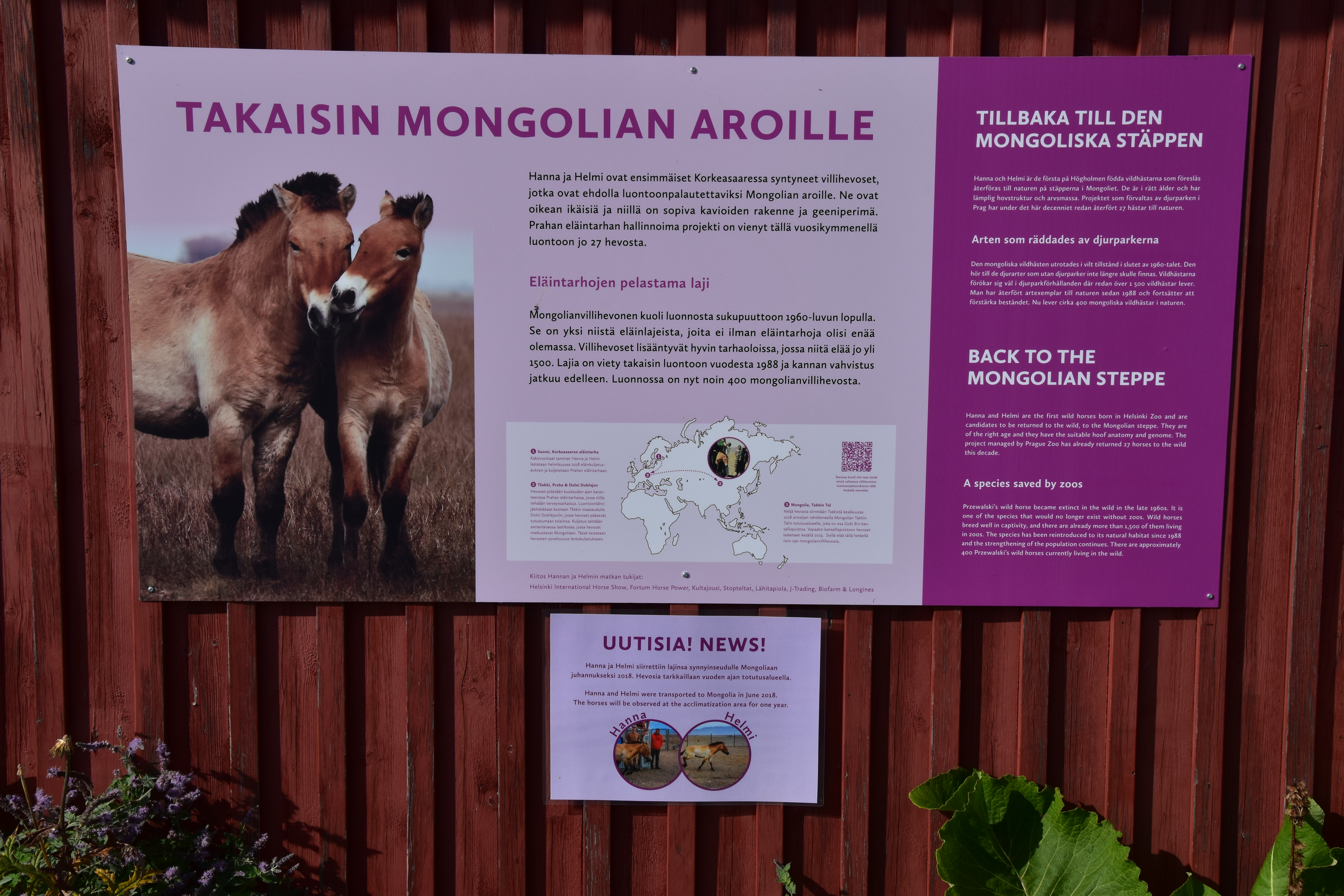 Helsinki Zoo – Przewalski's horse, Back to the Mongolain steppe signage